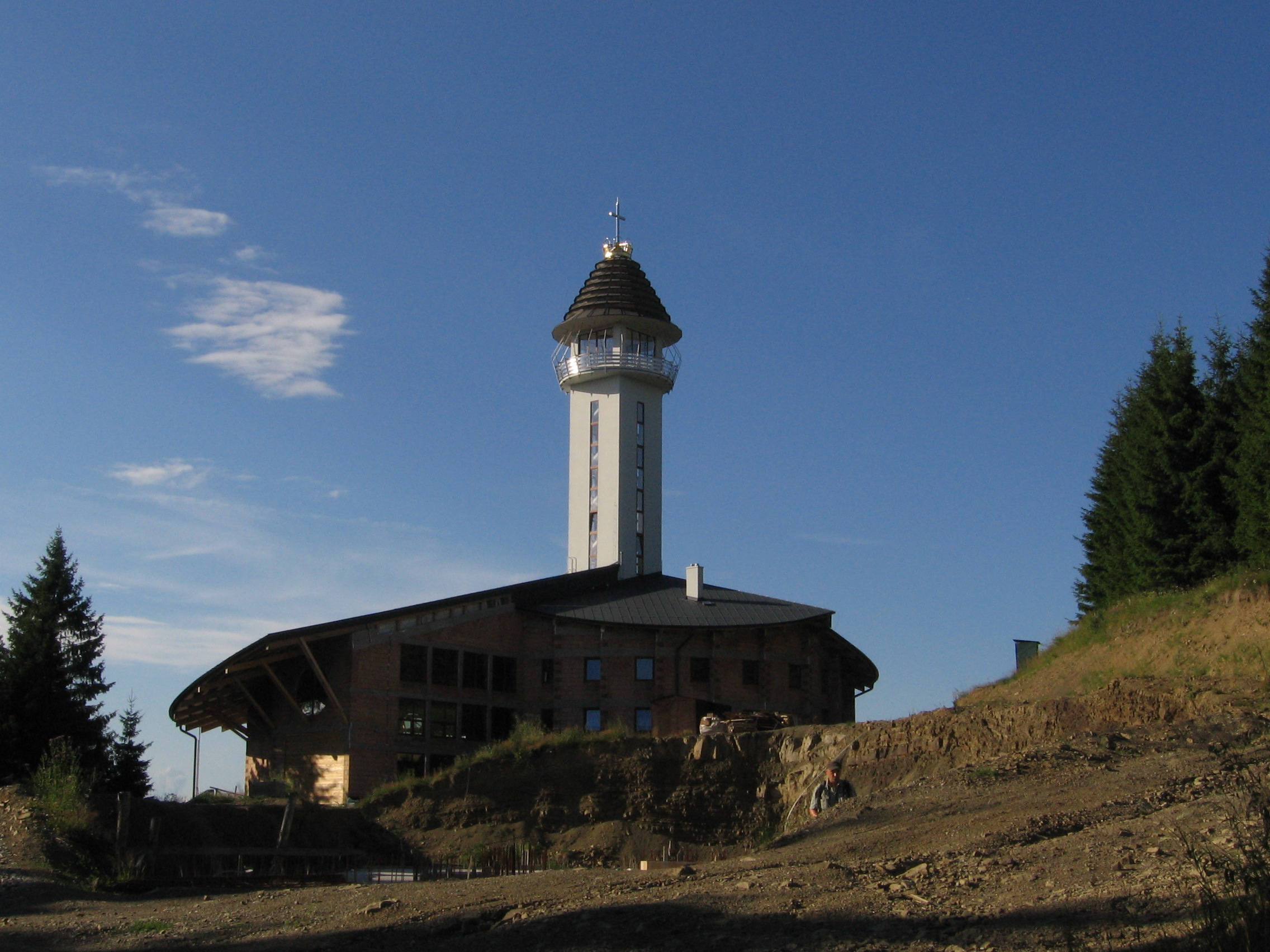 New church under construction at Živčáková